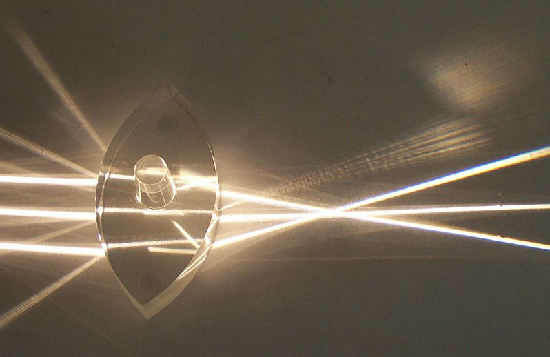 Convex lens Taken by fir0002